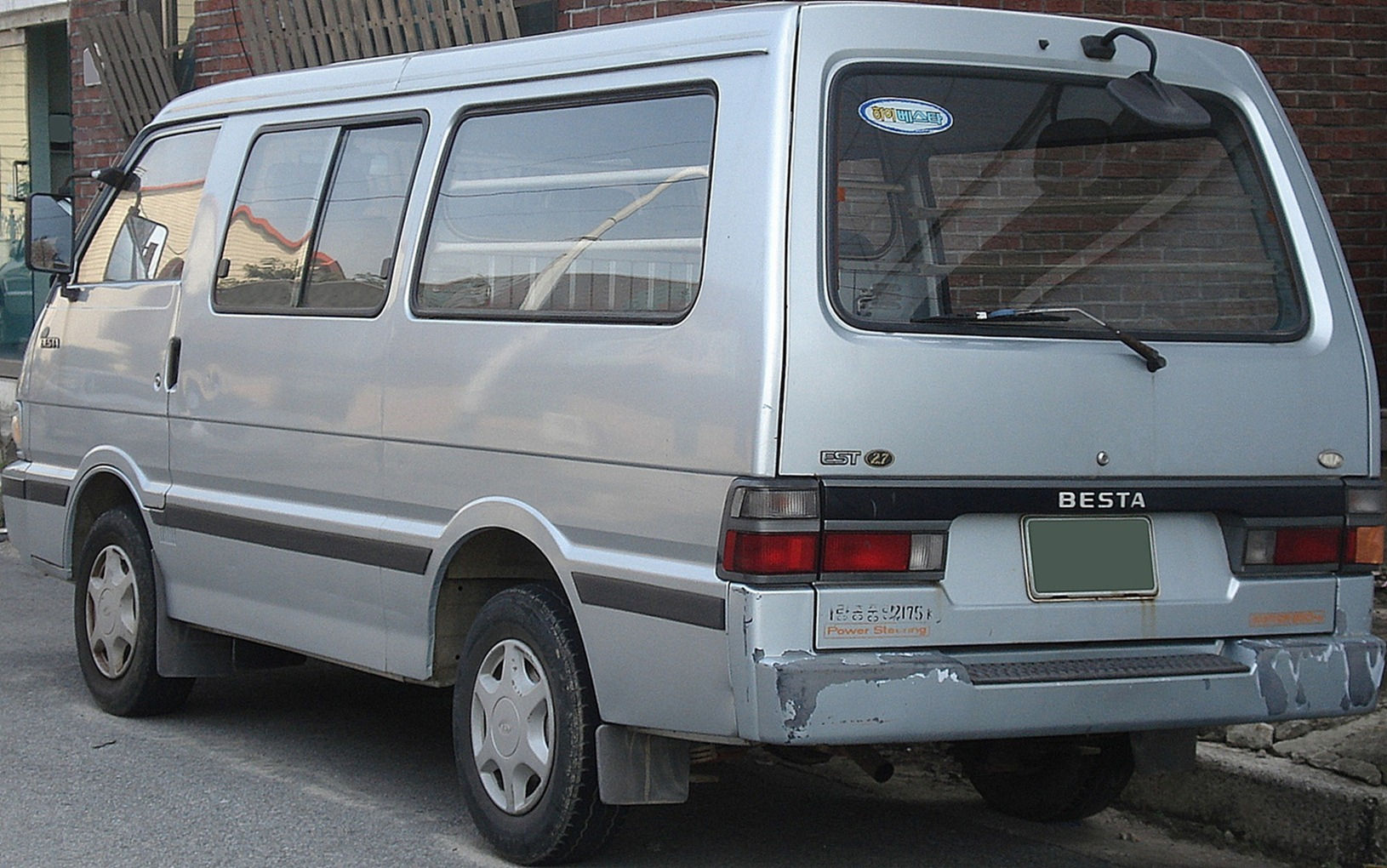 Kia Hi Besta